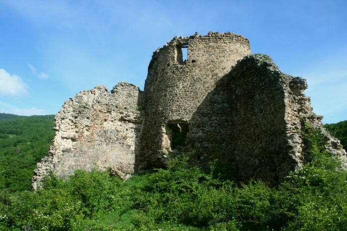 Kekhvi fortress in South Ossetia/Georgia.